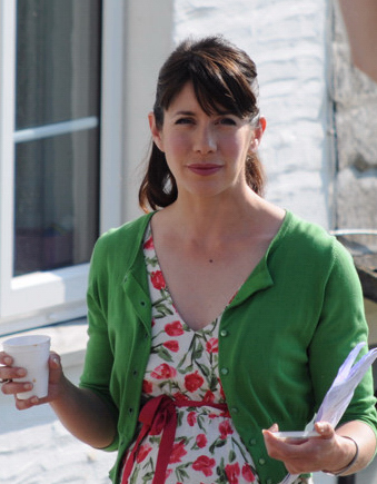 Caroline Catz on the set of Doc Martin 4 in Port Isaac